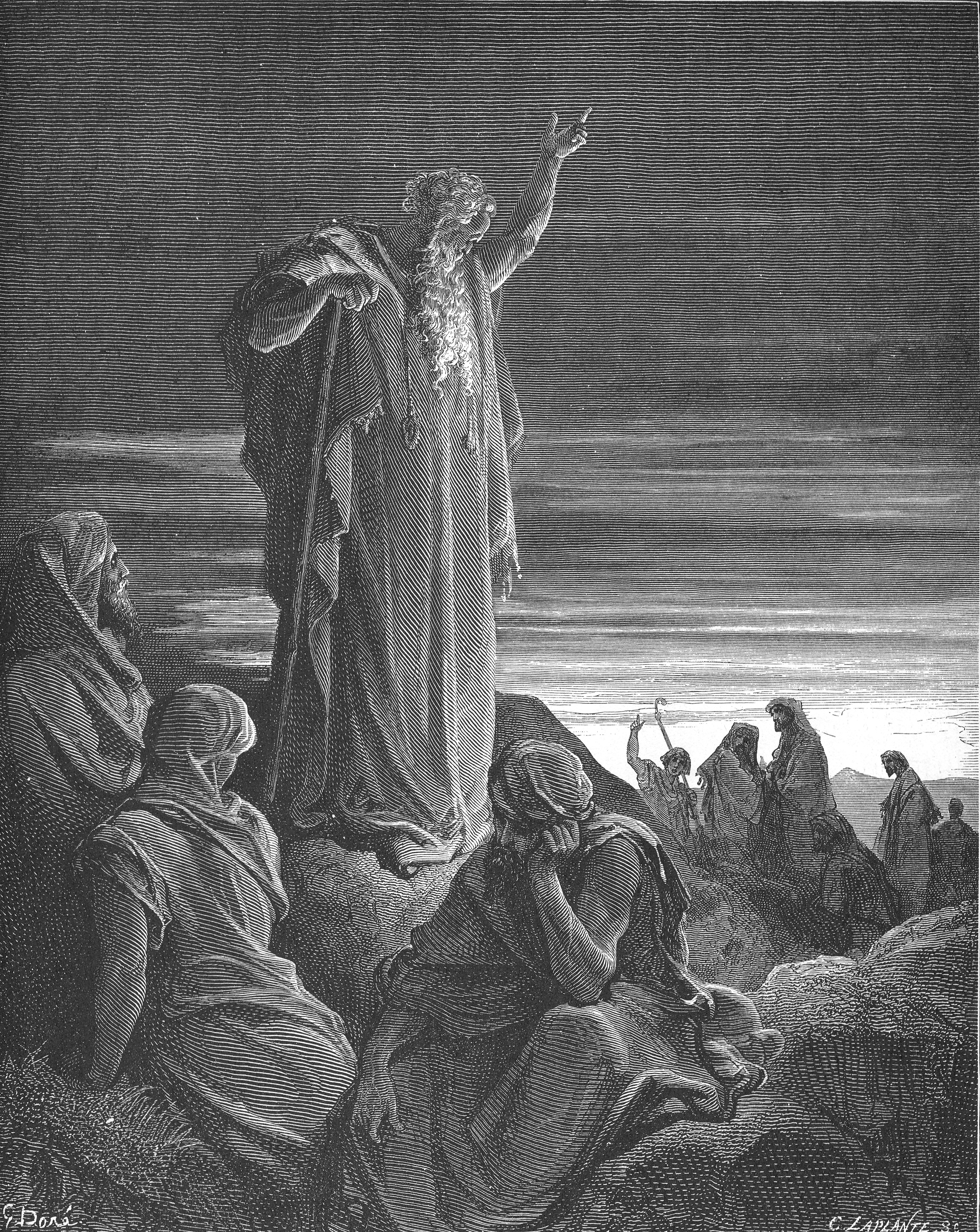 The Prophet Ezekiel (Ez. 14:1-21)